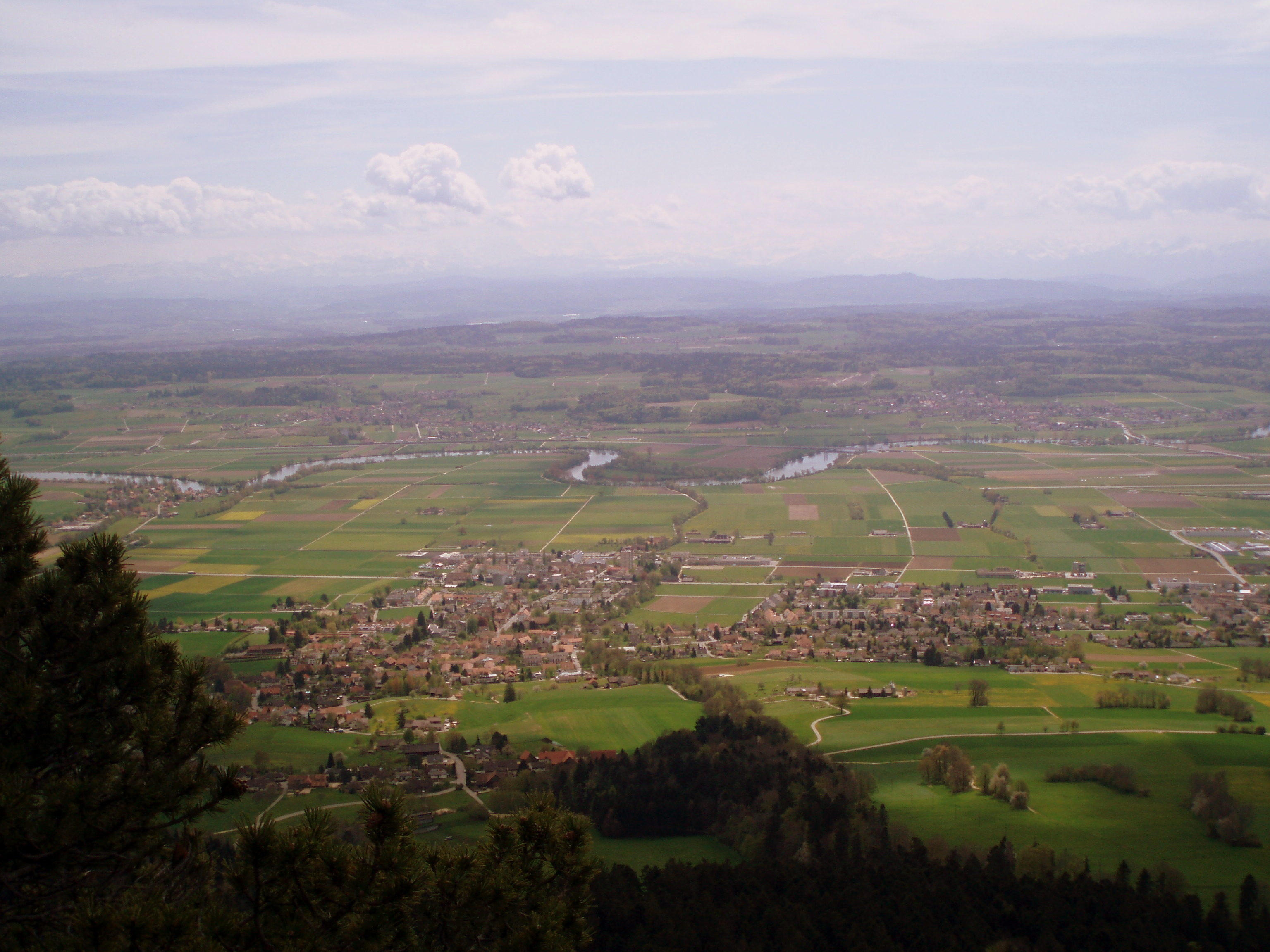 View on Bettlach/Switzerland from North